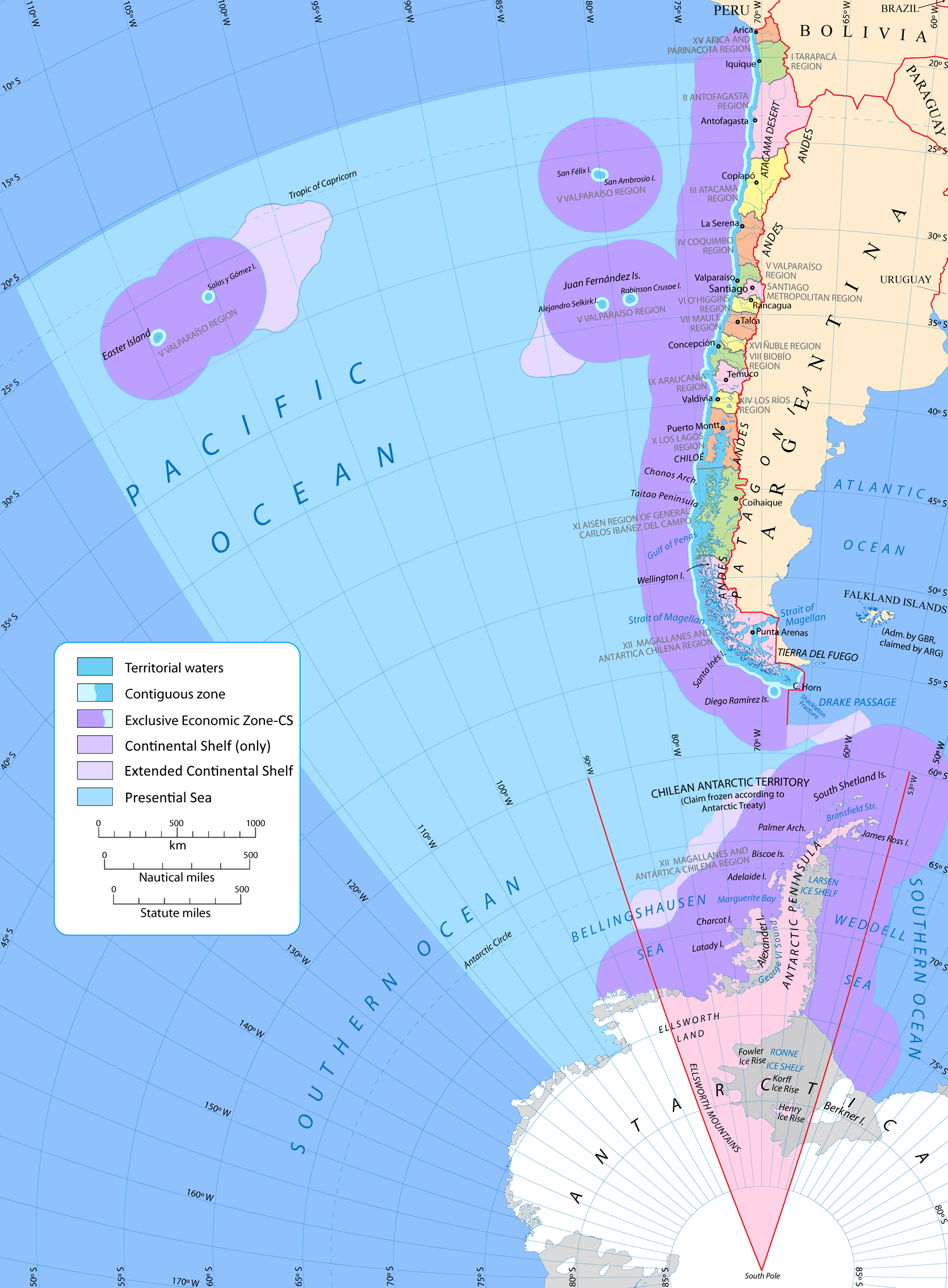 Map of Chile including antarctic claim and maritime zones ("tricontinental Chile")